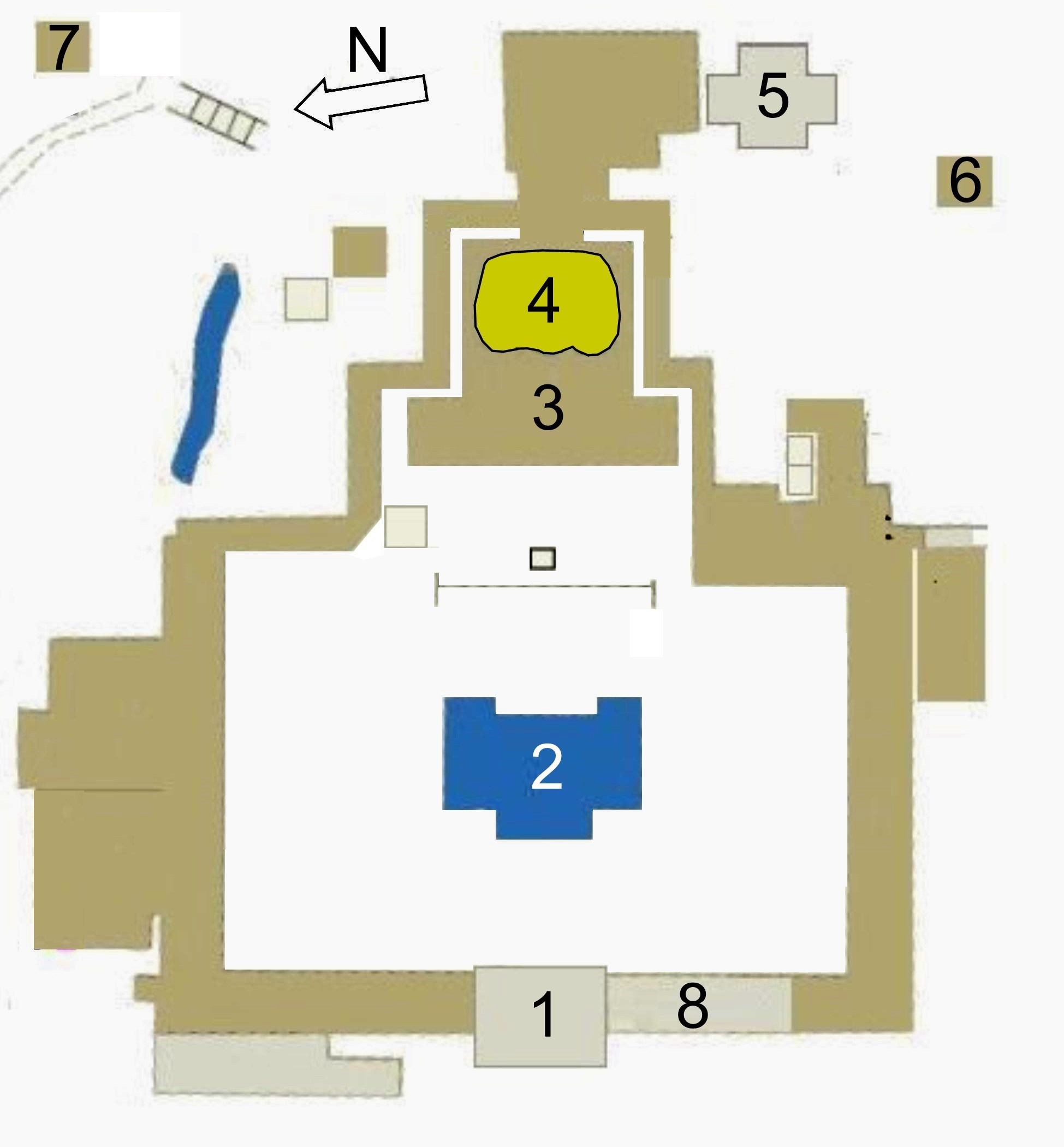 Layout of Ryōsen-Kannon temple, Kyoto